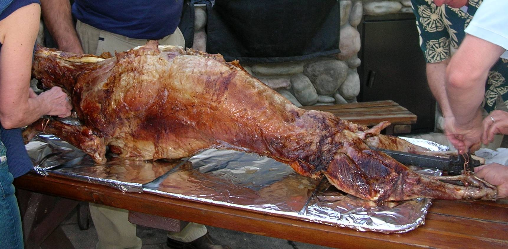 Mechoui (lamb roasted on an open fire)